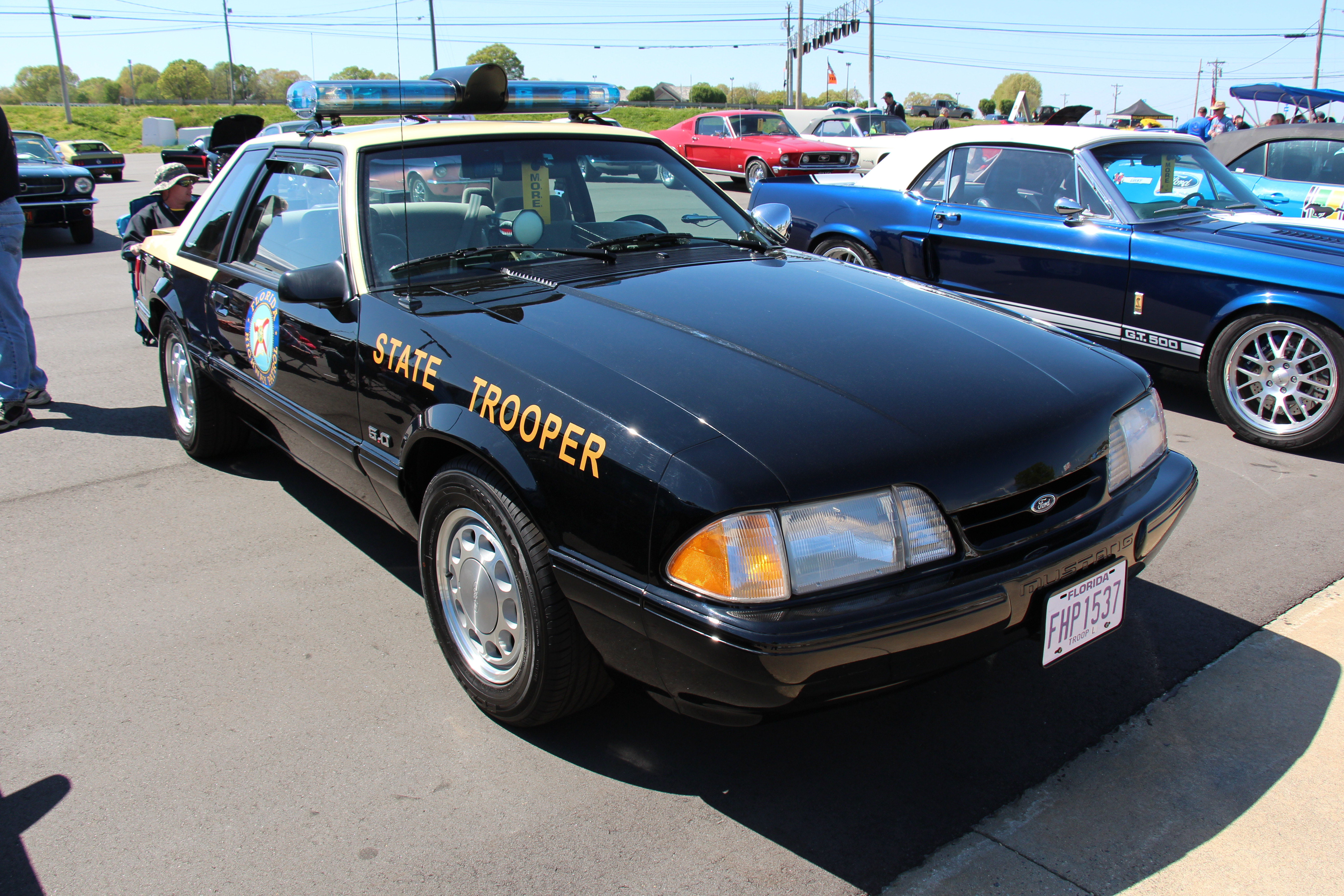 Florida State Police. The 3rd generation Fox body Mustang was made from 1979-1993, a minor update to front and rear in 1983, and again in 1985, then a more substantial update in 1987 saw the grille and quad headlights replaced by modern single headlights and the no grille aero look. Only models available were the LX and GT and just the 2.3 litre 4 and 5.0 V8, still coupe, hatchback and convertible. From the new 1987 look until the end for the Fox body Mustangs in 1993 there were few changes. The Ford Mustang SSP (Special Service Package) was a lightweight police car package on the Mustang produced between 1982-1993. They got the 210hp 5.0 V8 in a basic Coupe body. Photographed at the 50th Anniversary of the Mustang celebrations at the Charlotte Motor Speedway, April 2014